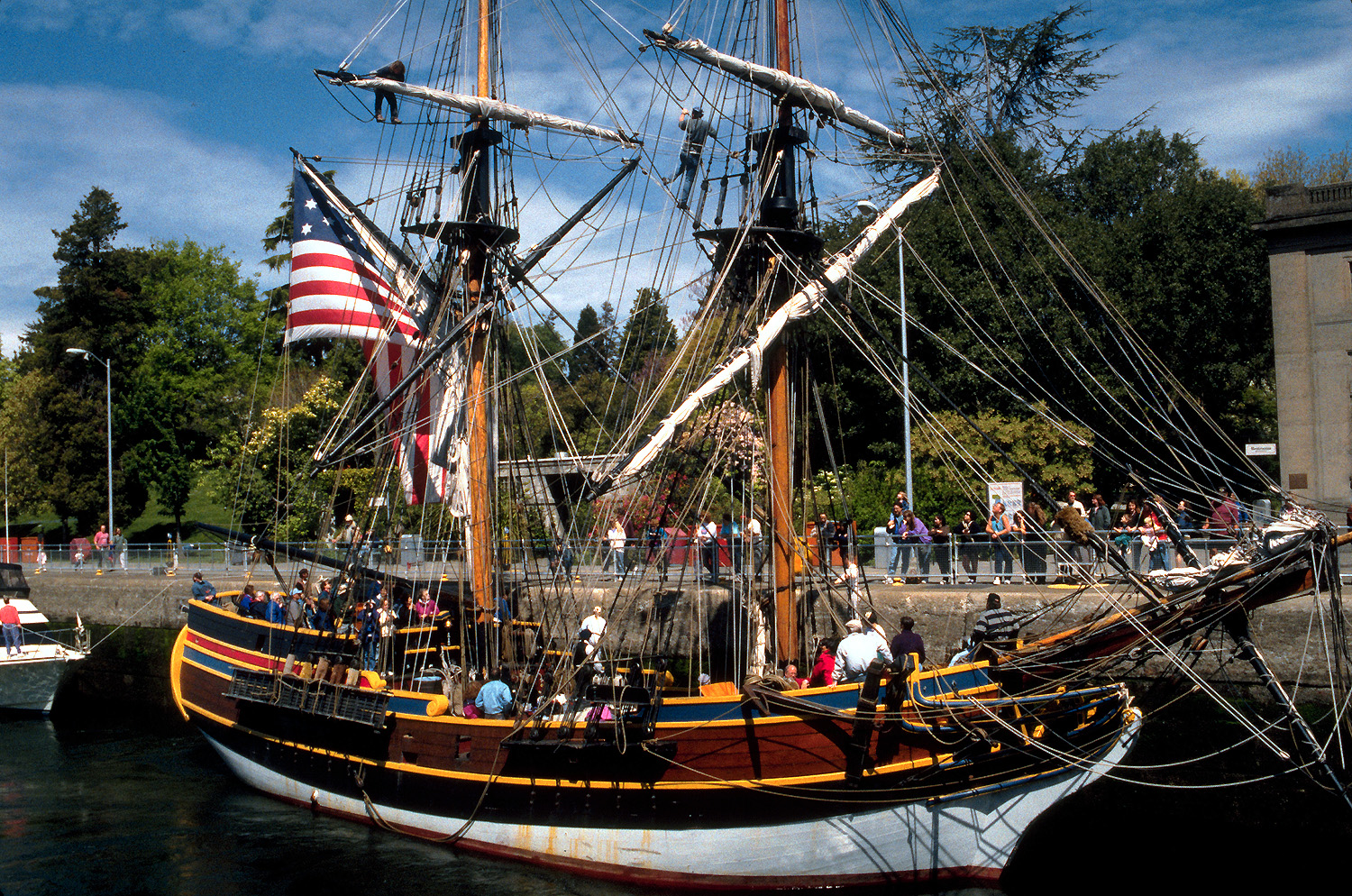 The historic ship Lady Washington in the Lake Washington Ship Canal, Seattle, Washington, 1988.